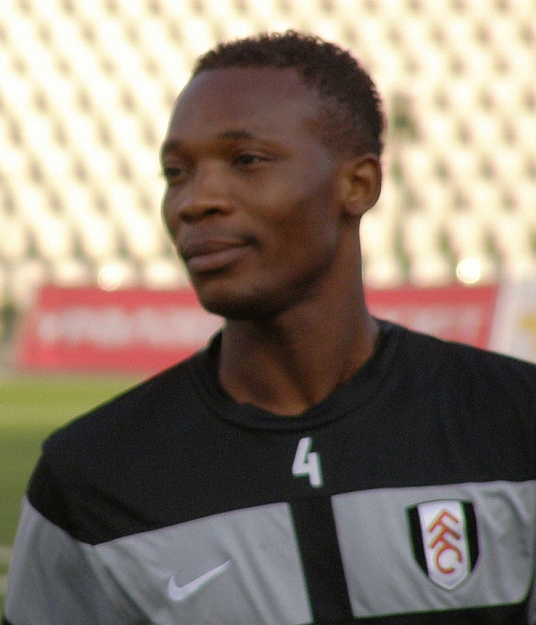 John Paintsil training for Fulham F.C.